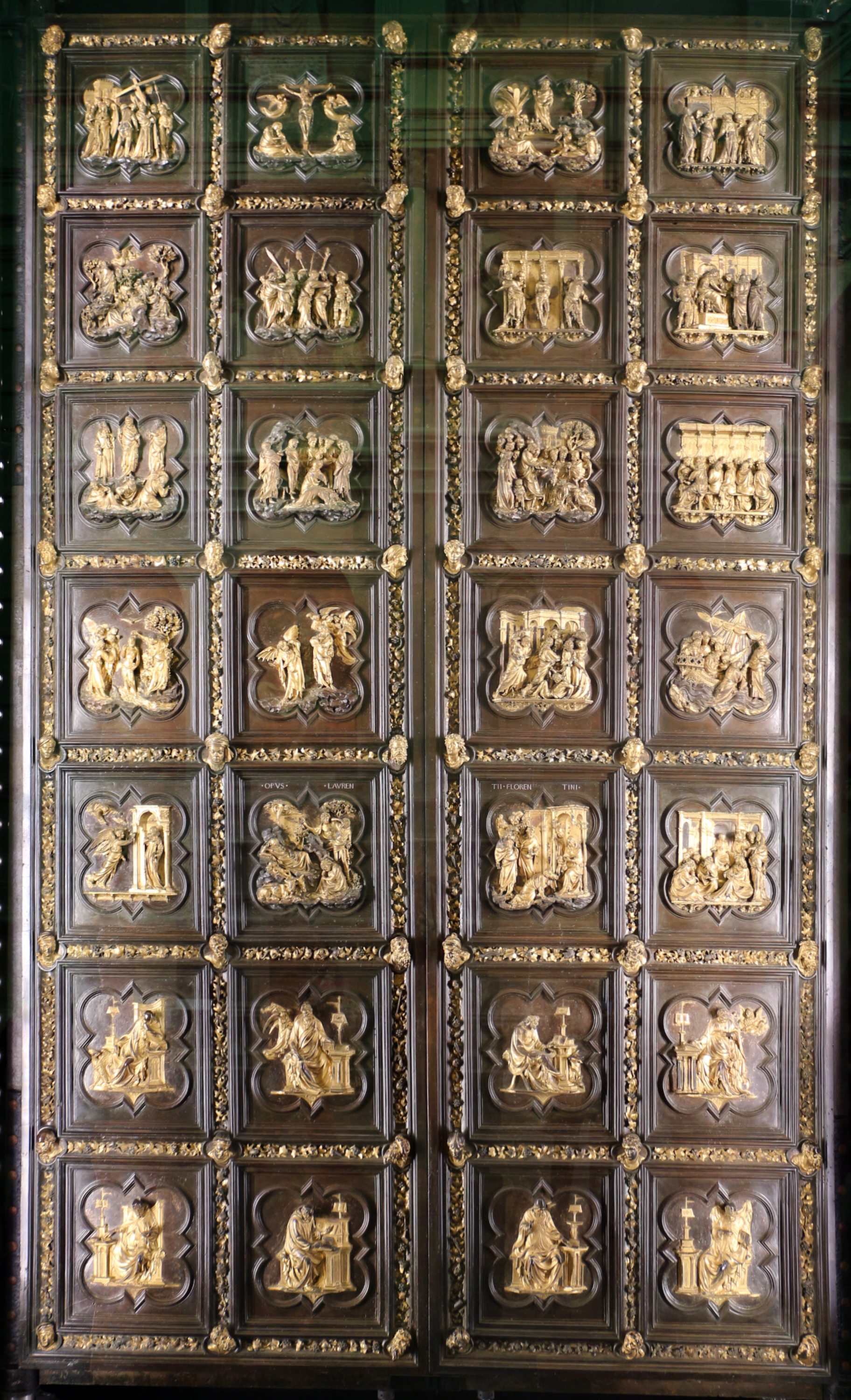 North Doors of the Battisteria di San Giovanni, Florence